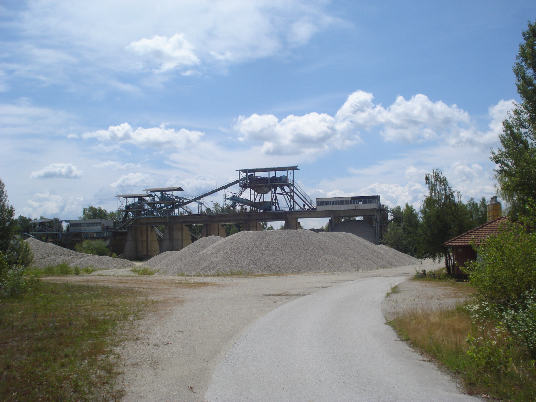 Gravel plant for sand and gravel extraction in Ivanovec, Medjimurje County, Croatia - northeast view